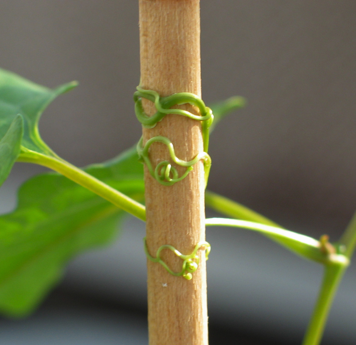 Redvine (Brunnichia ovata) tendrils coil and latch on for support.